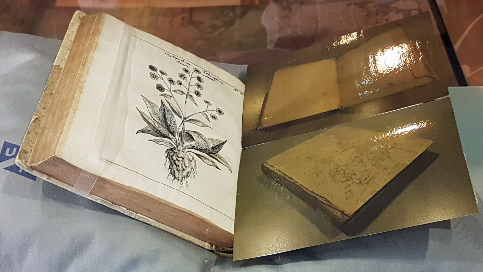 Abraham Munting: De vera antiquorum herba Britannica, etc. (Hieronymus Sweerts, Amsterdam, 1681). Photographed at an exhibition on books about herbs and herbal medicine in the inner city branch of the university library of Maastricht University at Nieuwenhofstraat/Grote Looiersstraat, Maastricht, the Netherlands.